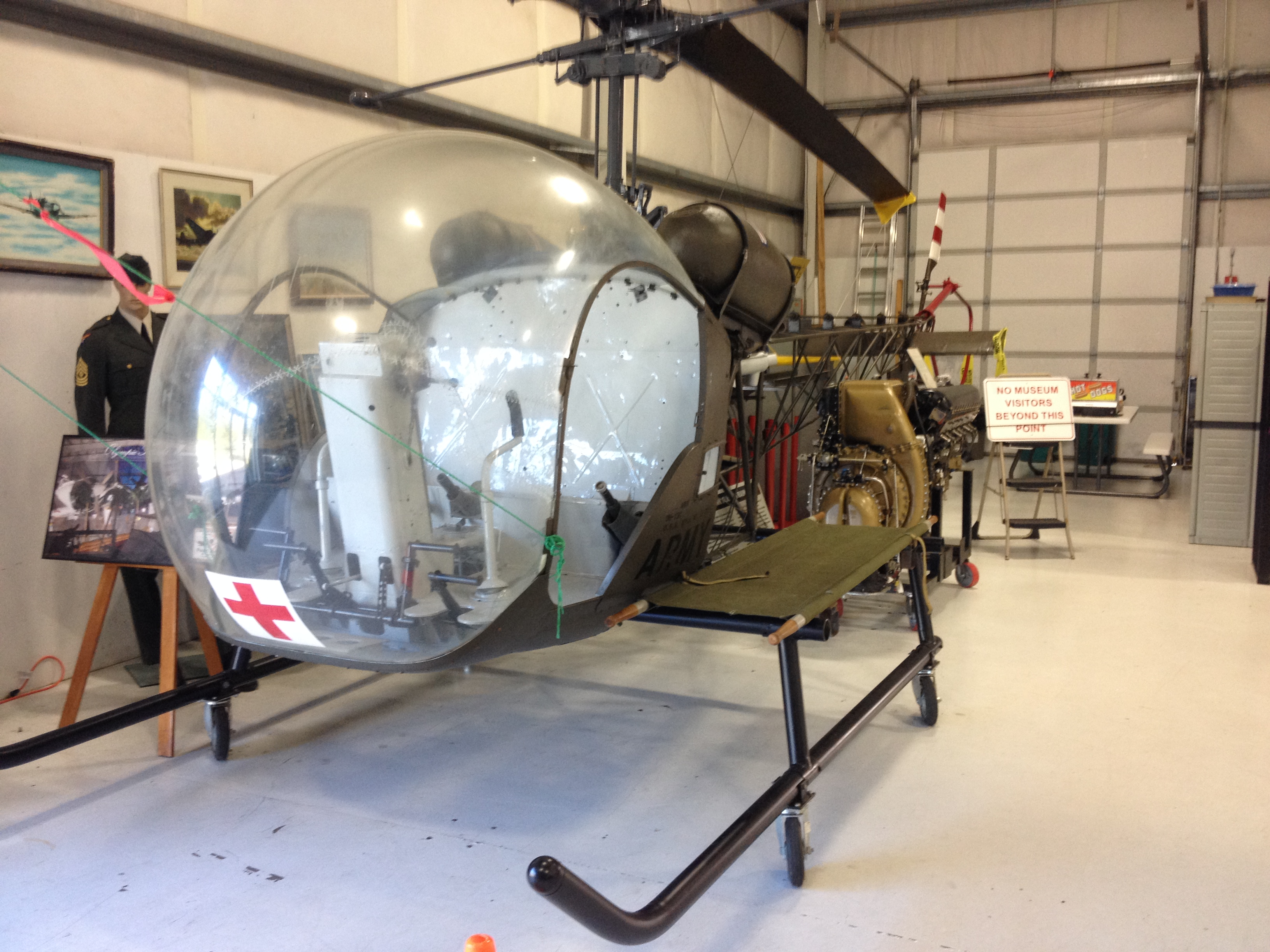 Olympic Flight Museum